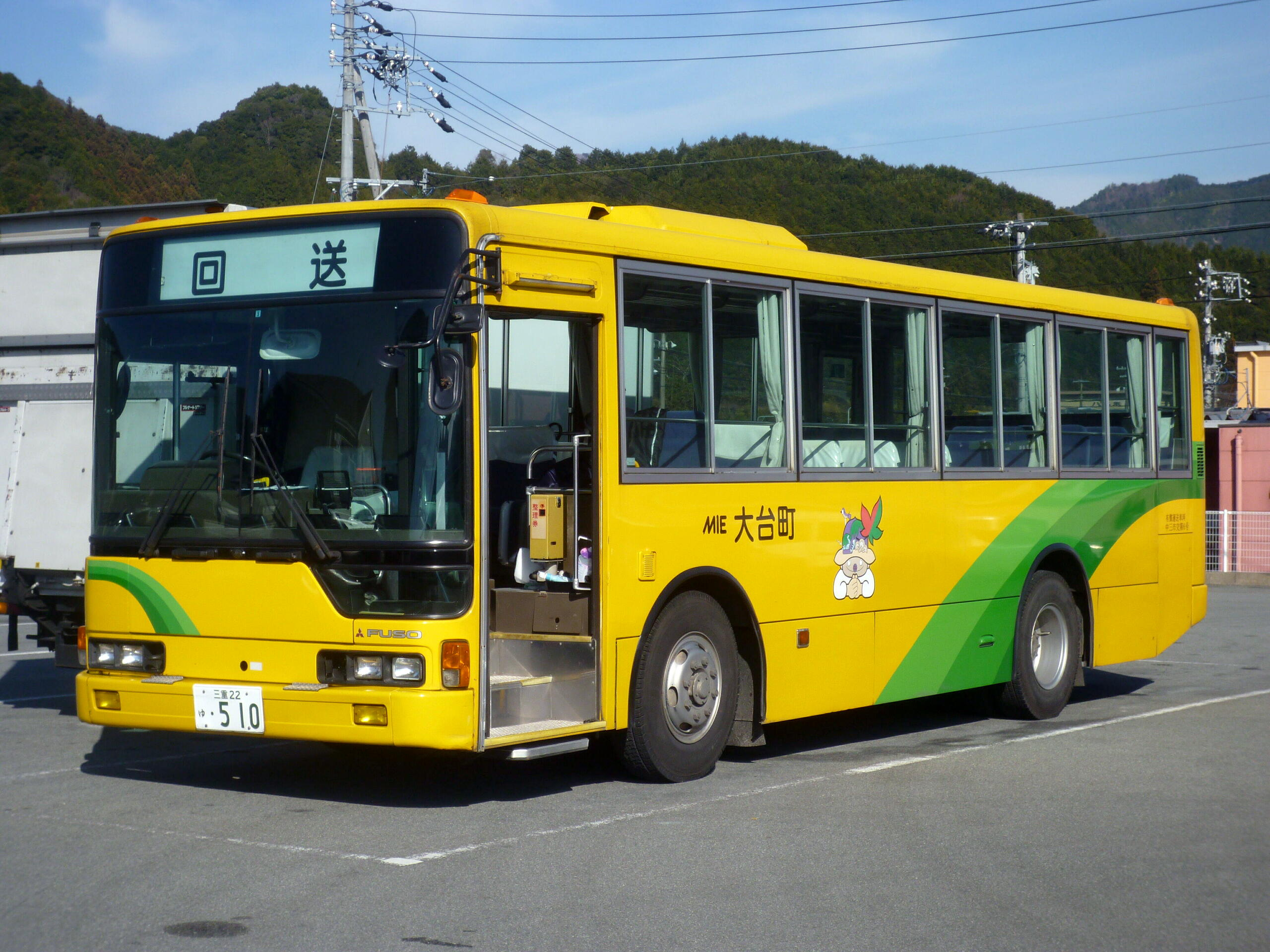 The "Ōdai Town Bus".